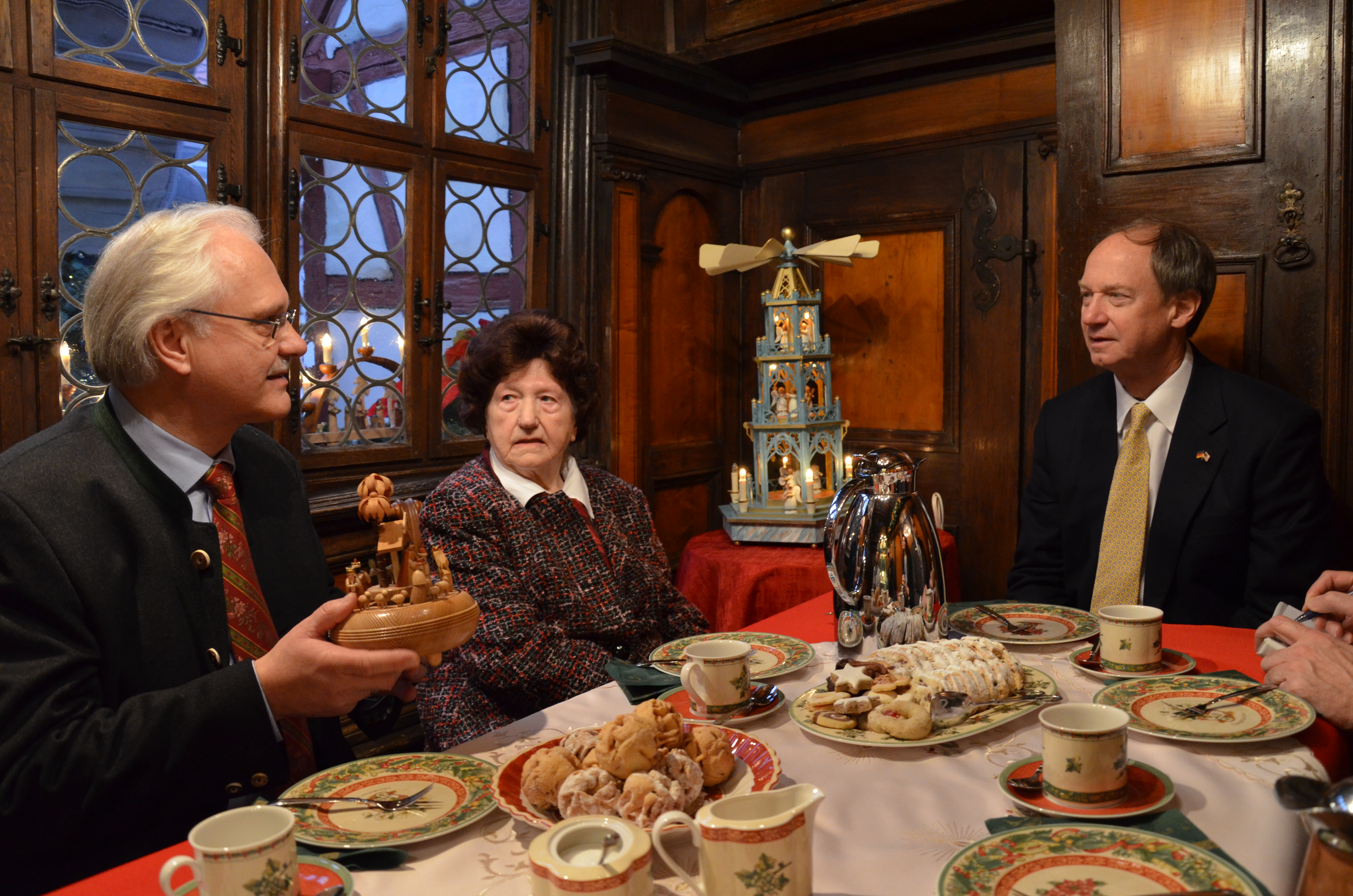 Mr. Harald Wohlfahrt explains origins of Kaethe Wohlfahrt (with Kaethe in the middle)